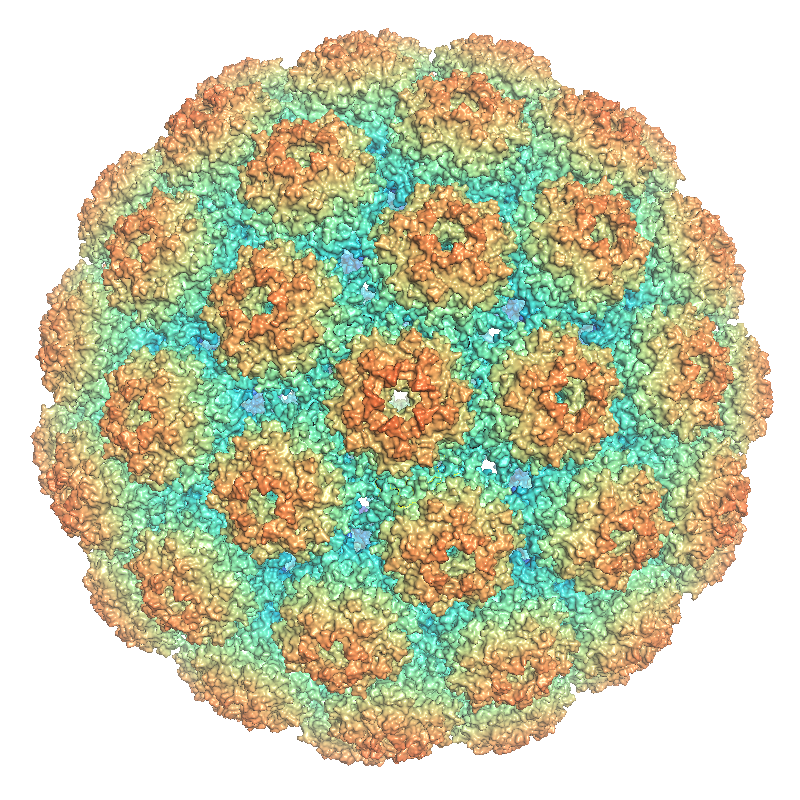 Rendering of the murine polyomavirus (MPyV) icosahedral viral capsid assembly, comprising 72 pentamers of the protein VP1. The structure is colored according to distance from the center of the capsid. Image rendered using PyMol from PDB: 1SIE​. (Note: This image is identical in orientation to File:Mpyv_colorbychain.png, but colored differently. It is in a slightly different orientation from File:Mpyv_alpha.png. This one is centered on a strict pentamer for improved symmetrical appearance. See [1] and [2] for definitions of capsid components.)